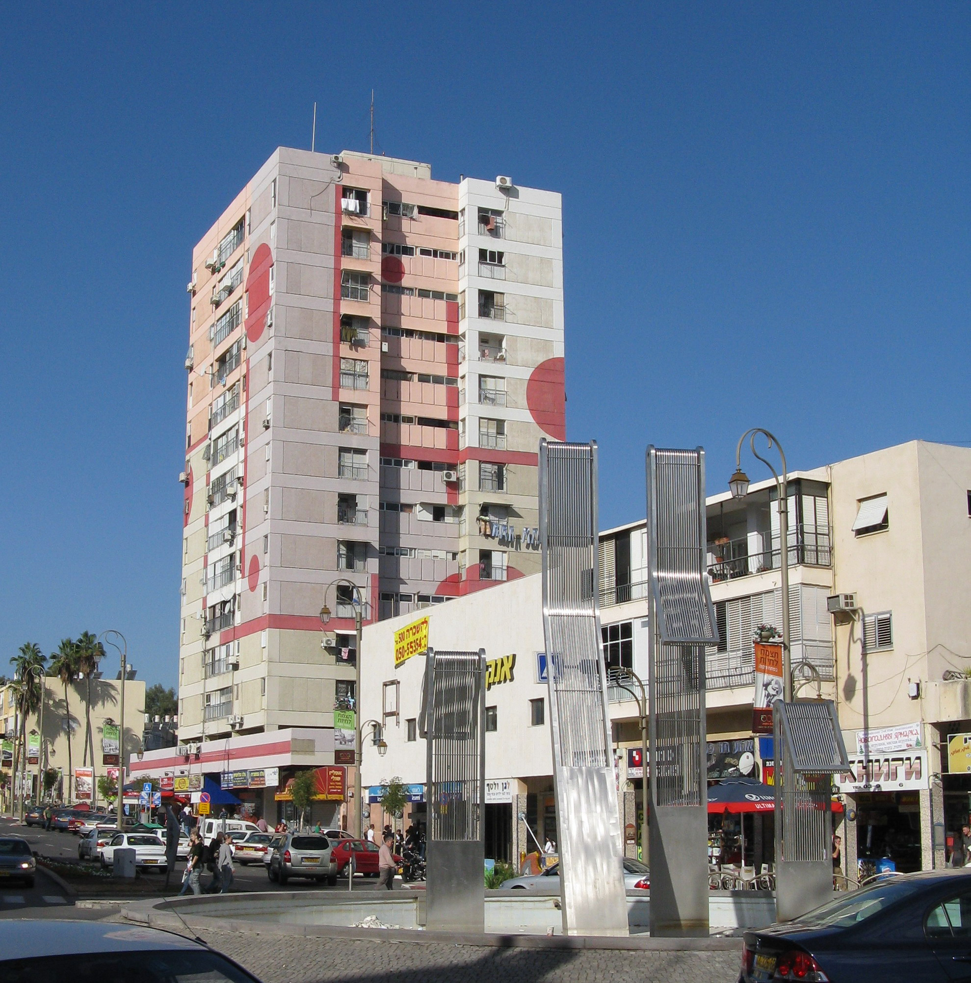 Petah Tikva, Haim Ozer st.